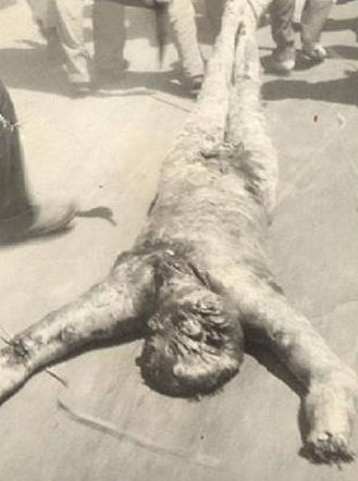 14 July revolution in Iraq - mutilated corpse of prime minister Nuri as-Said